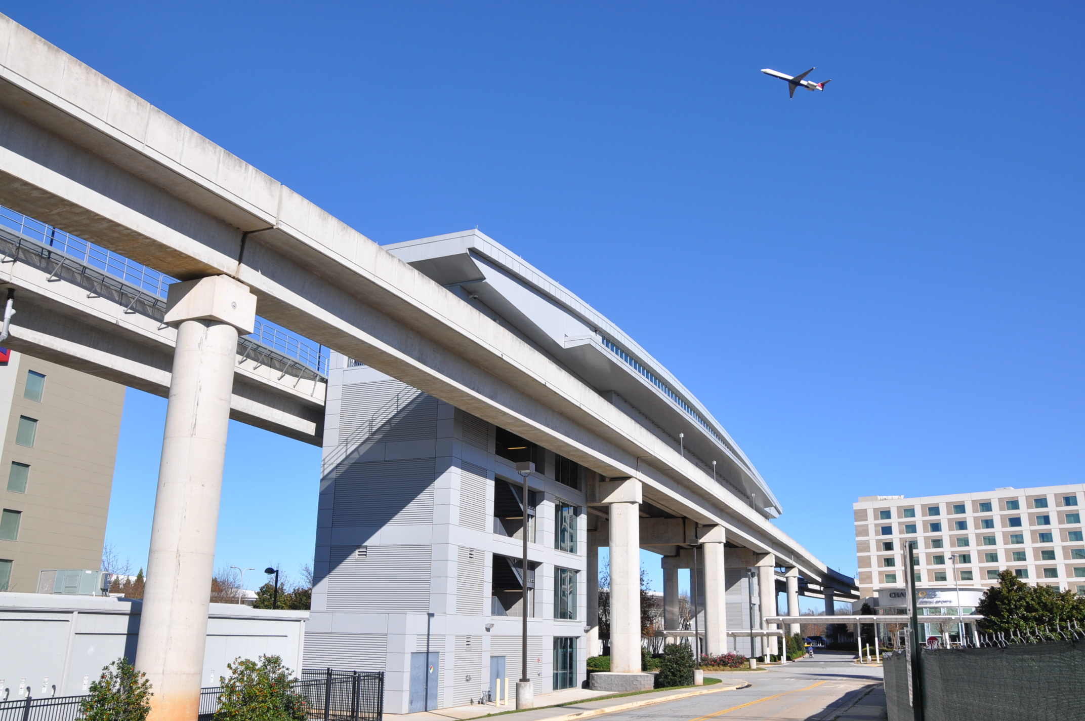 This is a photo of a plane flying of the ATL Skytrain located in College Park, Georgia at the Gateway Center which houses the Georgia International Convention Center.